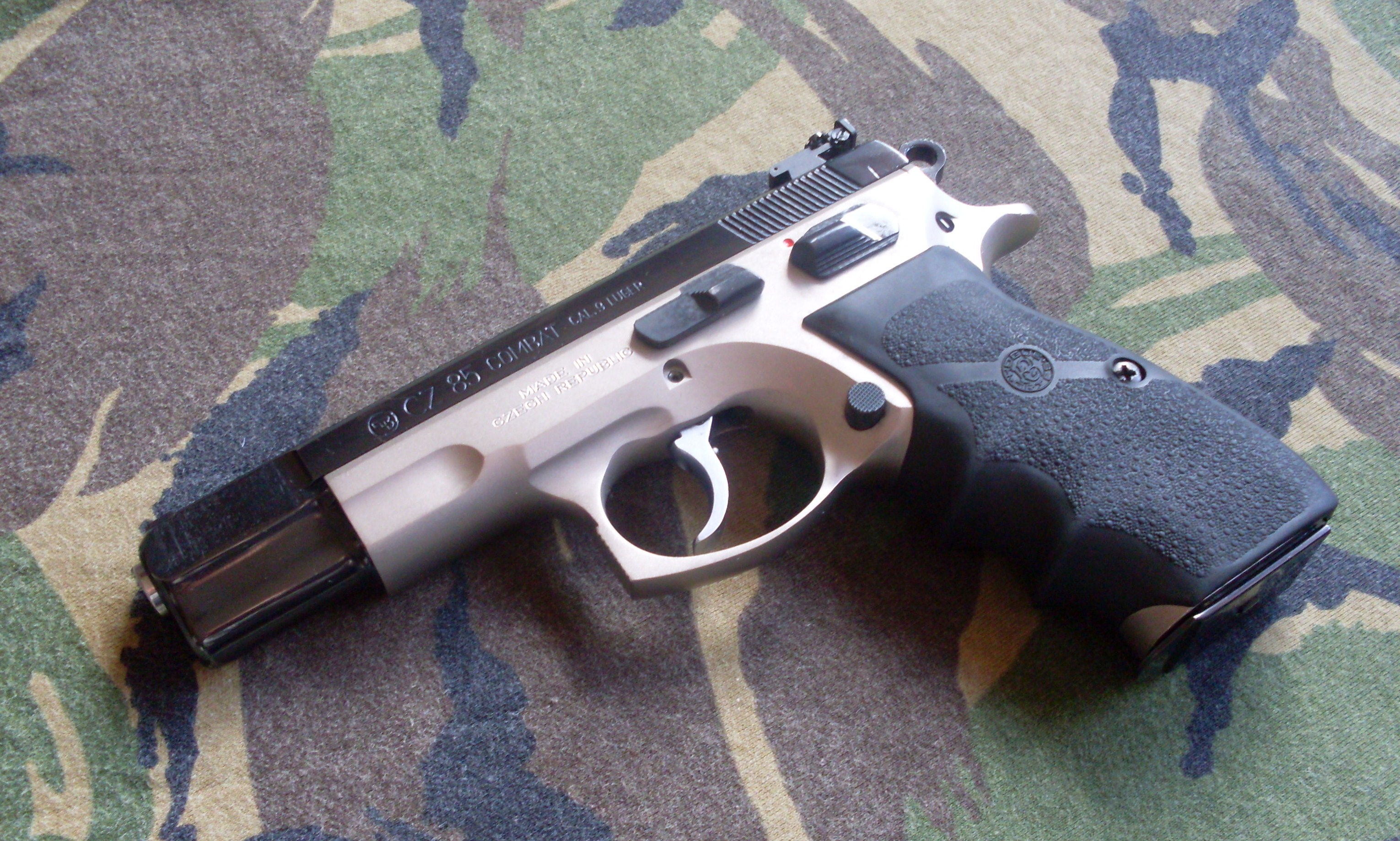 A photo of my CZ85 Combat. Een foto van mijn CZ85 Combat